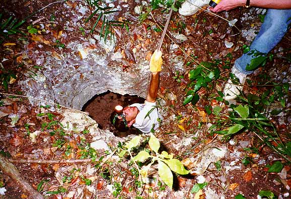 Archaeologist exploring a Chultun (underground cistern) of the Ancient Maya.